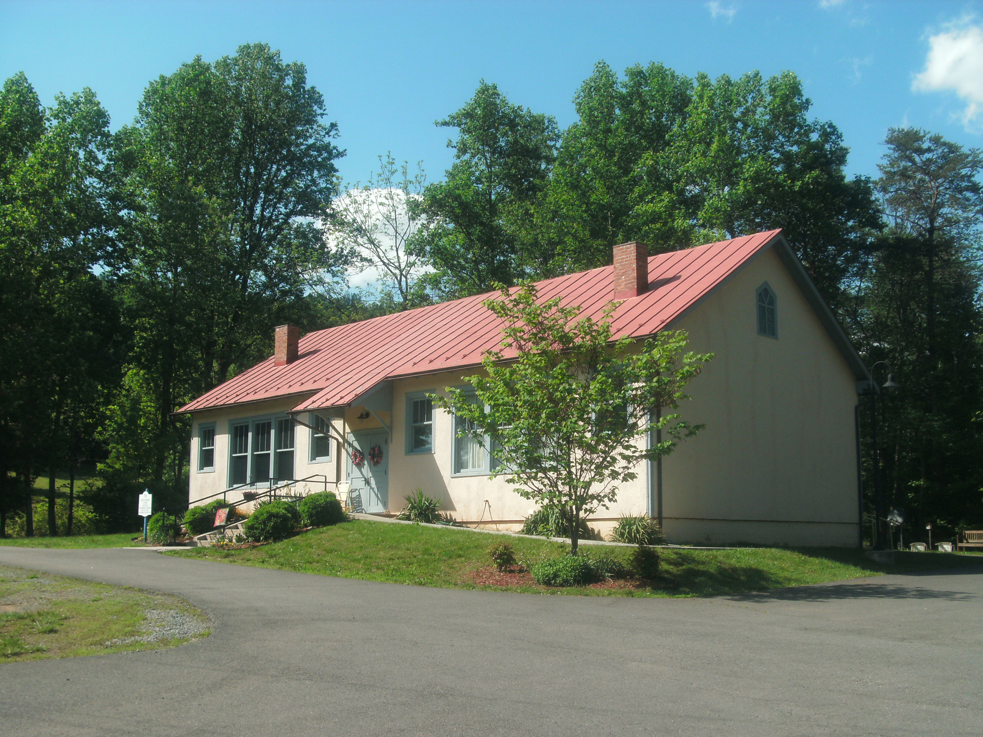 Taken by me in May, 2016 GEDSC DIGITAL CAMERA